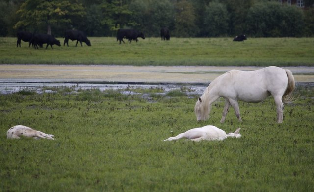 Port Meadow